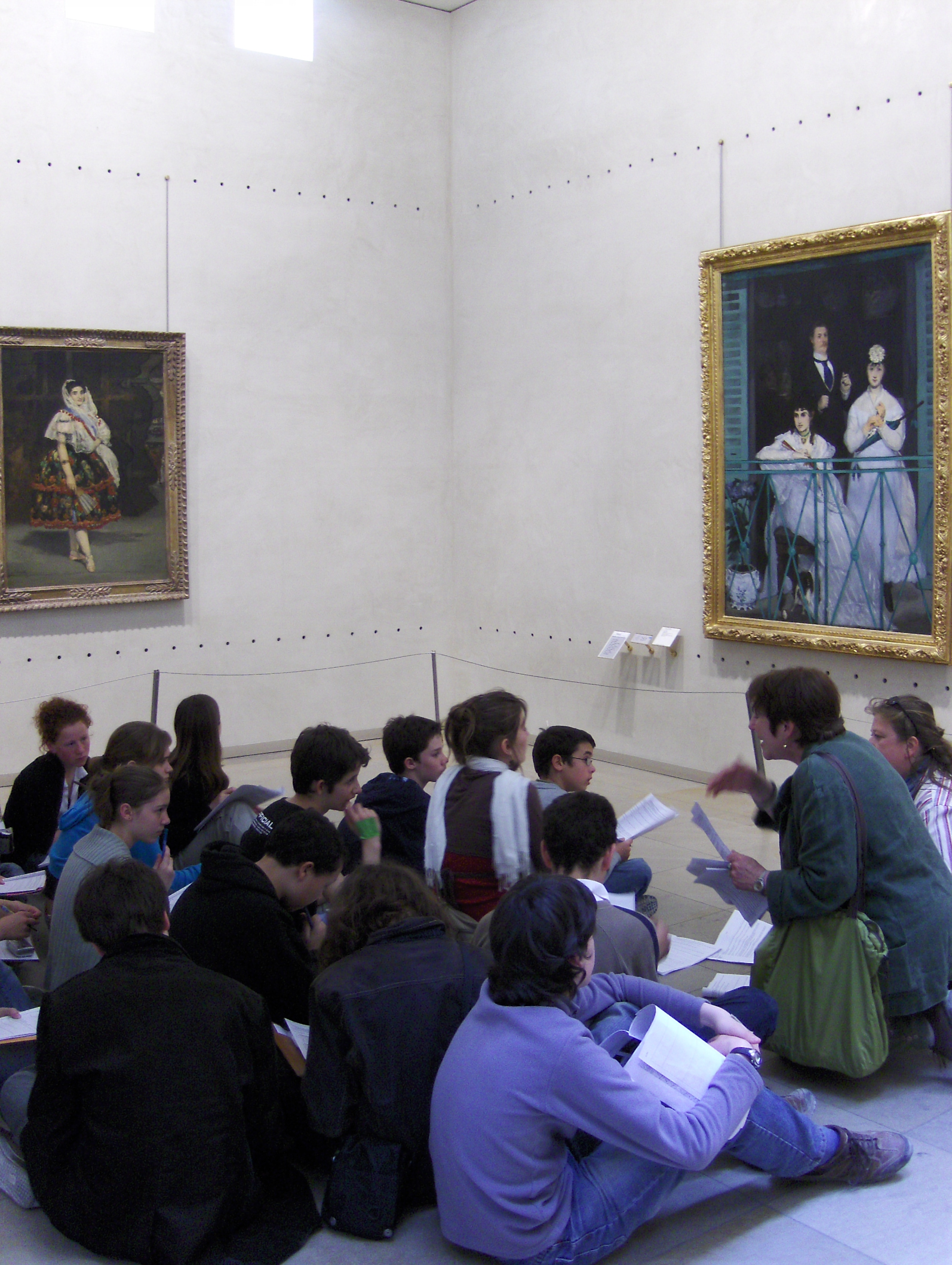 Student group and a teacher at Musée d'Orsay, Paris